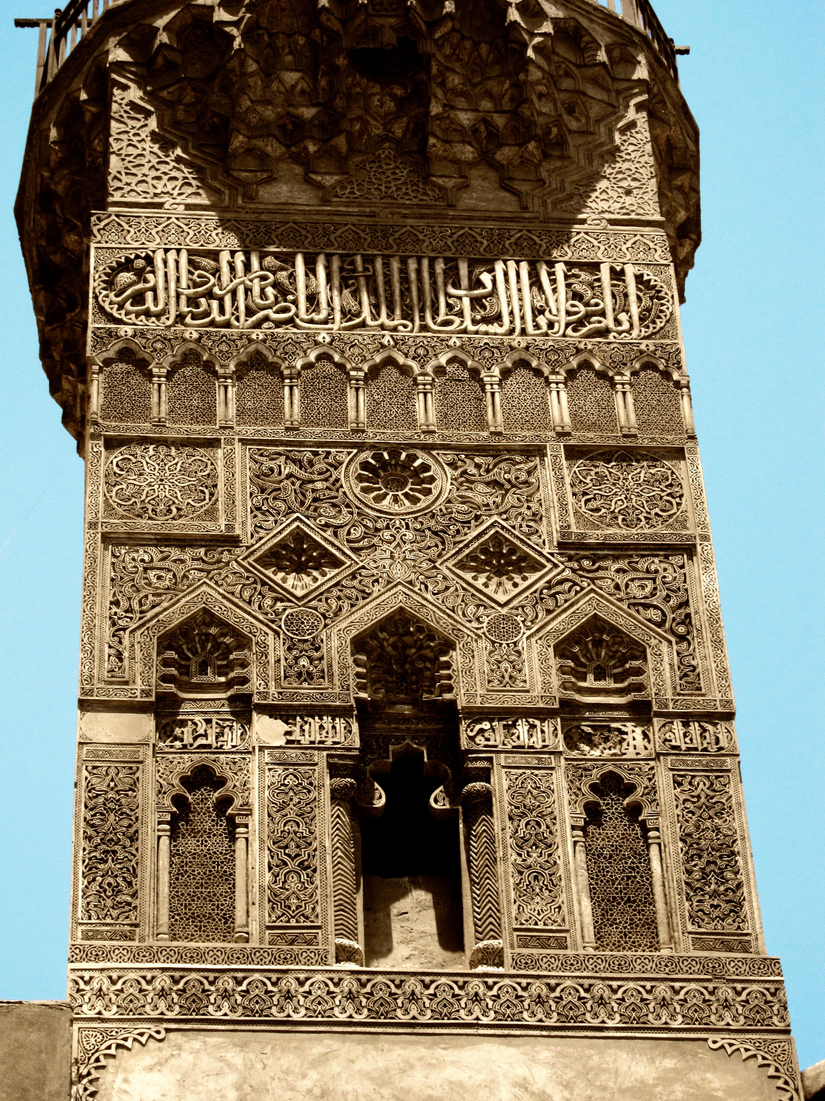 The complex of Sultan Qalawun was built for the sultan by Amir 'Alam al-Din Sanjar al-Shuja'i in 1284-5 and consisted of the founder's mausoleum, madrasa, and a maristan (hospital). The complex was located on al-Mu'izz Street. The mausoleum's central, domed plan is connected to the madrasa by a long entrance passage, and the plan of both spaces is shifted to accommodate the qibla orientation. The mausoleum, which is separated from the madrasa by this long corridor, is accessible via a small courtyard surrounded by an arcade with shallow domes. The octagonal structure was roofed by a dome which was destroyed in the 18th century. The current concrete dome, which is a replica of that covering the Mausoleum of al-Ashraf Khalil ibn Qalawun (1288), was built by Max Herz Bey in 1903. The octagonal base is transformed into a circle by means of wooden muqarnas. The elaborate interior decoration includes marble revetment, carved, painted, and gilded wood, carved marble, and stucco. Source